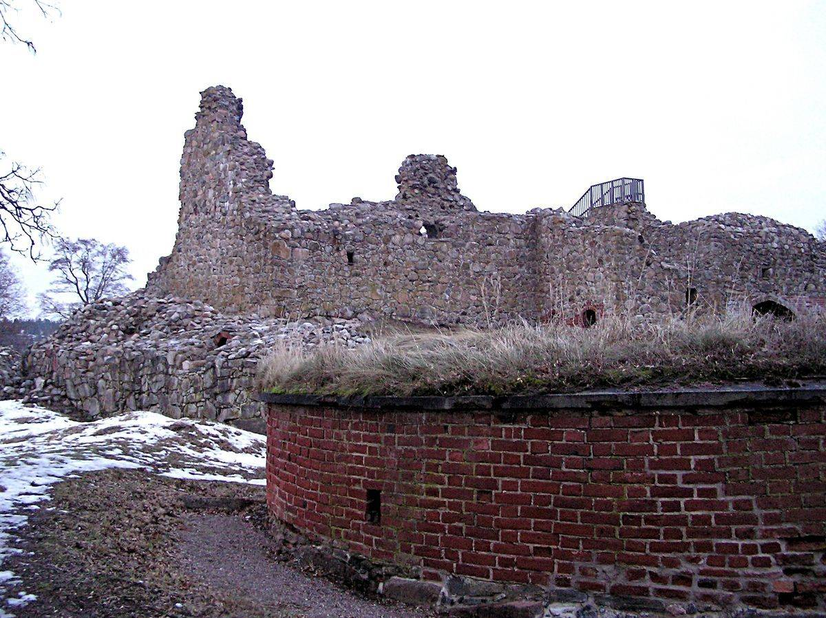 Kuusisto Castle ruins, in Kaarina, Finland.